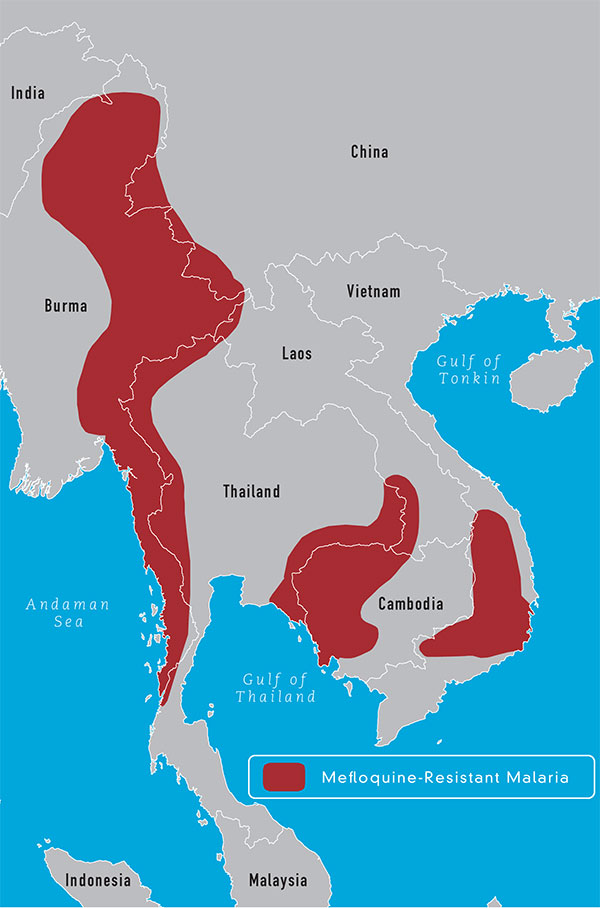 Mefloquine-resistant malaria in Southeast Asia.